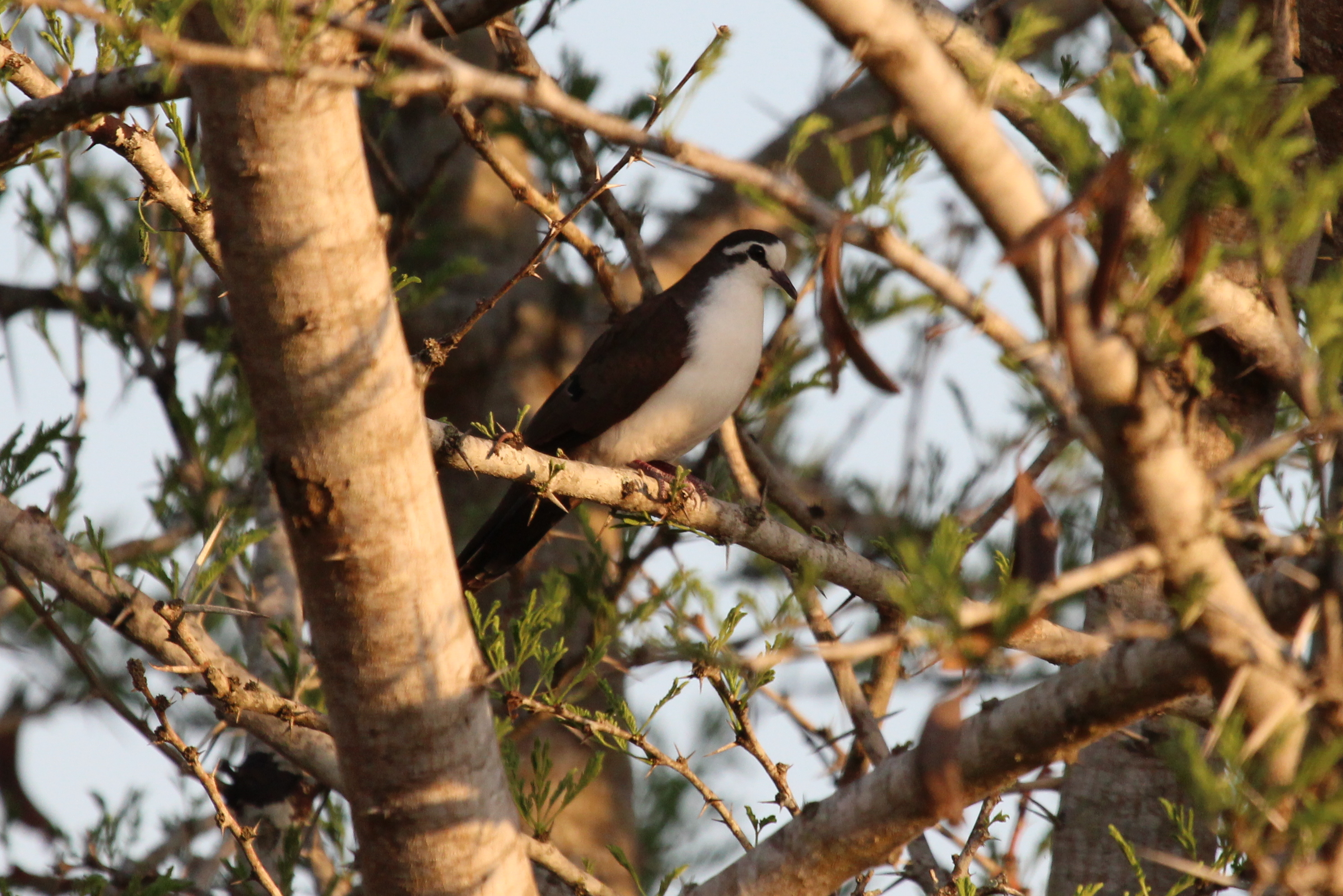 A Tambourine Dove near Hluhluwe, KwaZulu-Natal, South Africa.